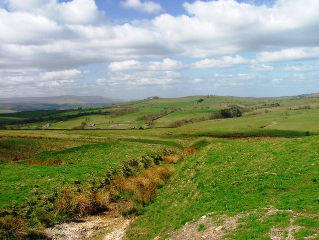 Stangate. The Roman Road, Stangate, viewed from where the road from Bardon Mill to Crindledykes crosses it. Stangate here descends towards Vindolanda, just visible left of centre.